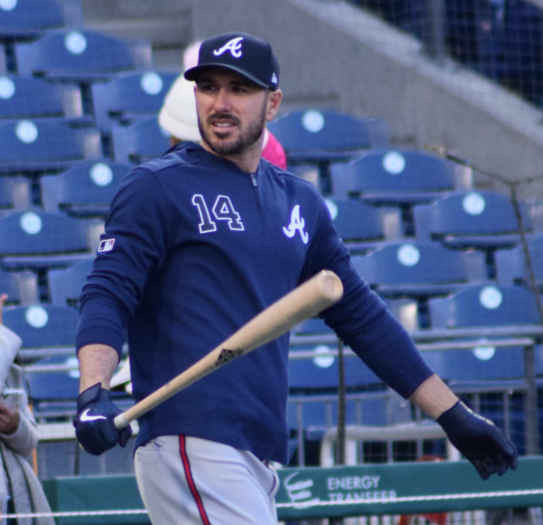 Matt Joyce of the Atlanta Braves before a game at Citizens Bank Park in Philadelphia in March 2019